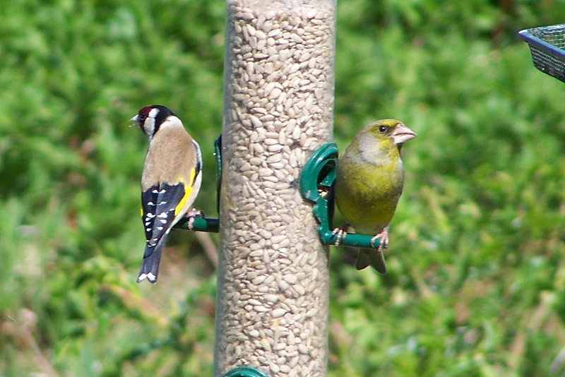 A goldfinch and a greenfinch on one of the feeders at RSPB Lochwinnoch